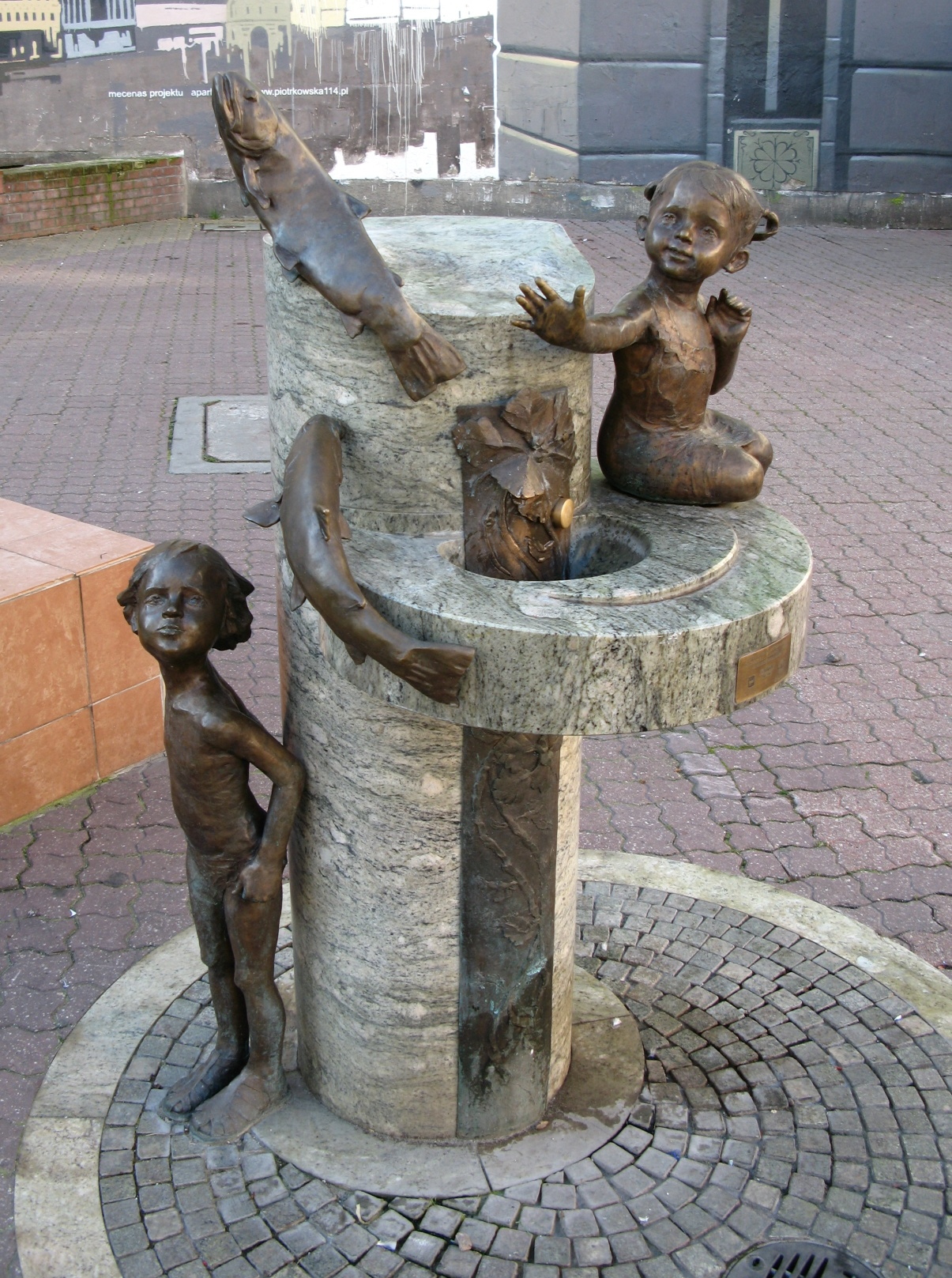 Water spring in Lodz, Schillera Passage